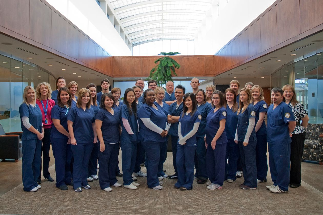 2011 Graduating Class of Rose State College - Respiratory Therapists